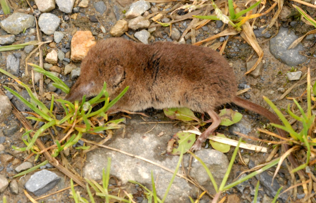 Sorex araneus from Commanster, Belgian High Ardennes .